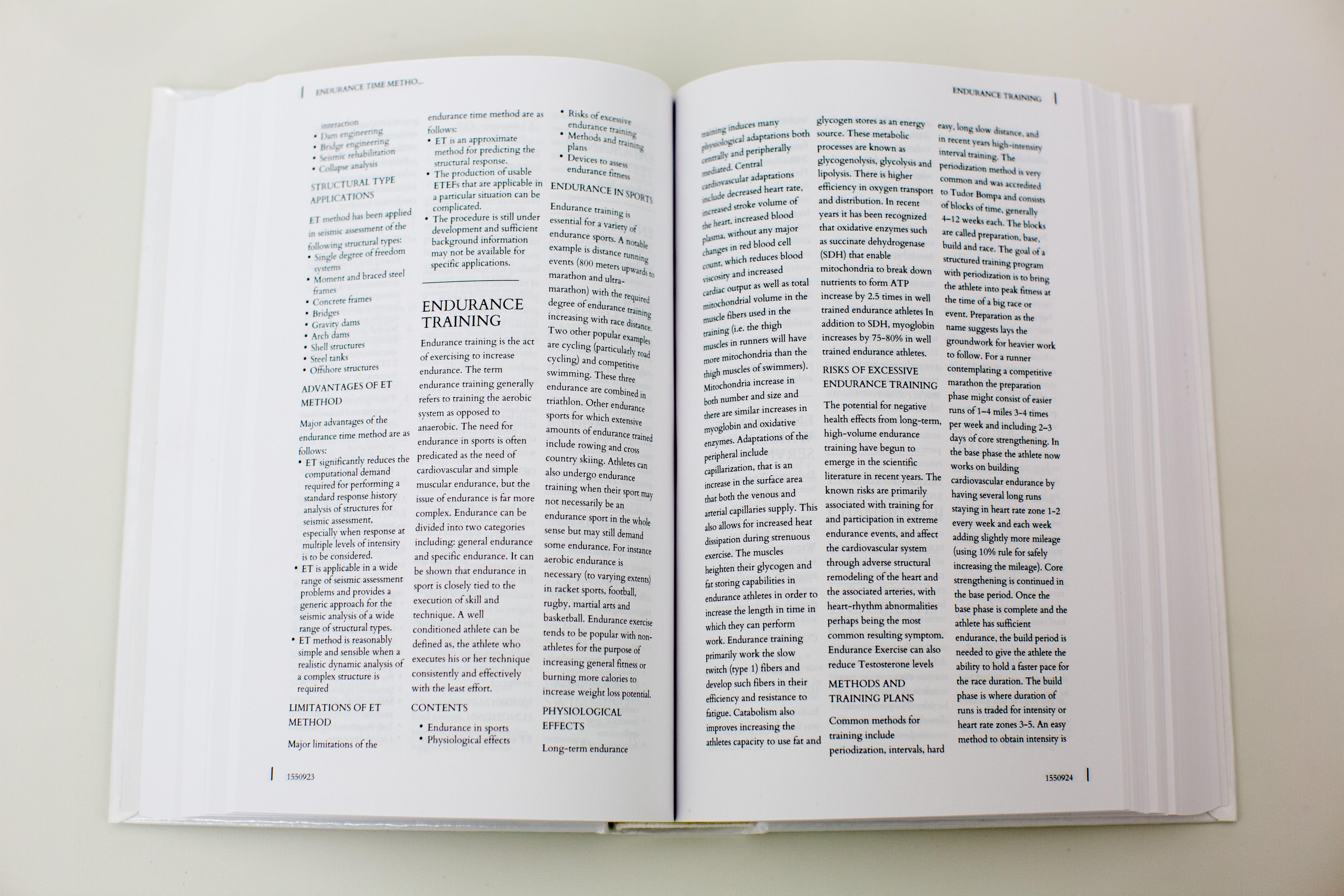 Print Wikipedia by Michael Mandiberg, NYC June 18, 2015 Derivative work CC By-SA 3.0 2015, Wikipedia contributors and Michael Mandiberg User:Theredproject